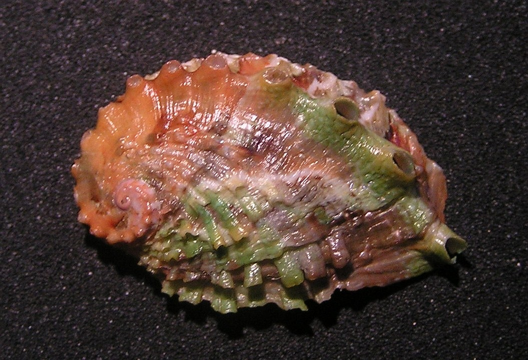 Haliotis jacnensis L. A. Reeve, 1846, an abolone in the family Haliotidae: Philippines